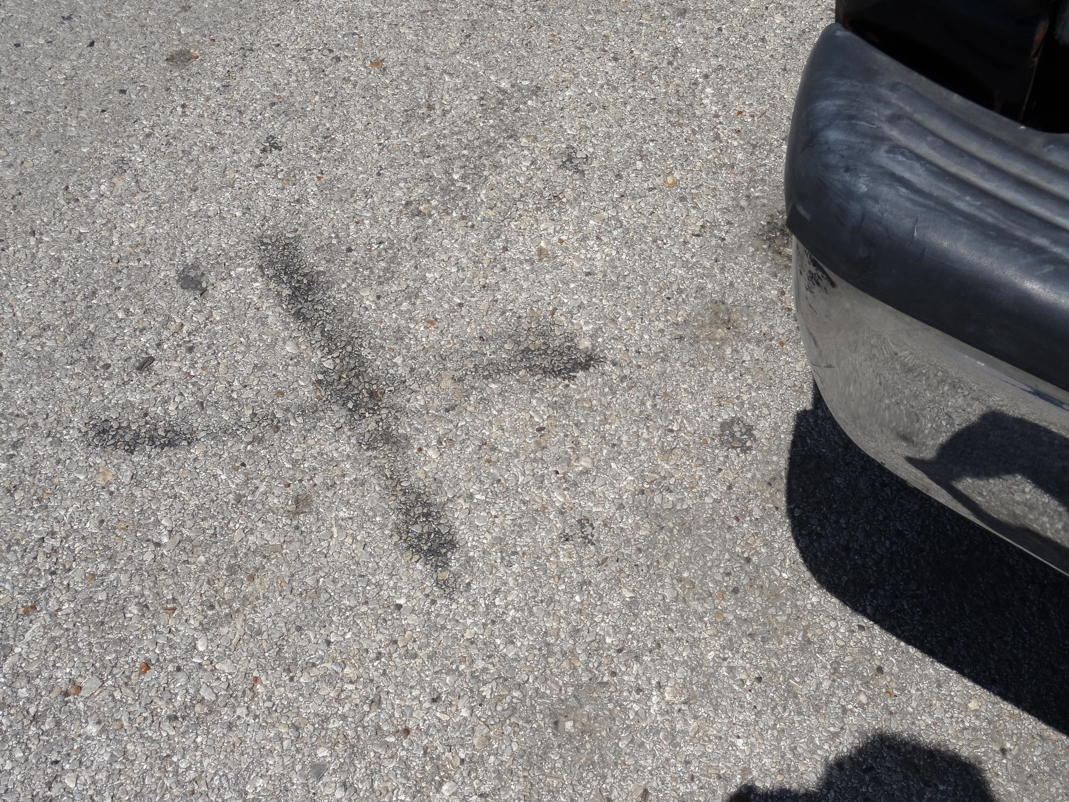 X Marks Spot Where Oswald Killed Officer J.D. Tippit - Oak Cliff Neighborhood - Dallas - Texas - USA